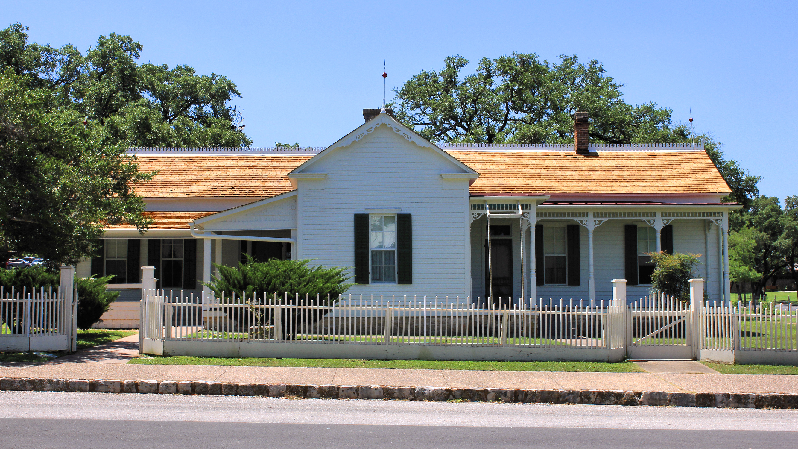 The boyhood home of Lyndon Baines Johnson in Johnson City, Texas.